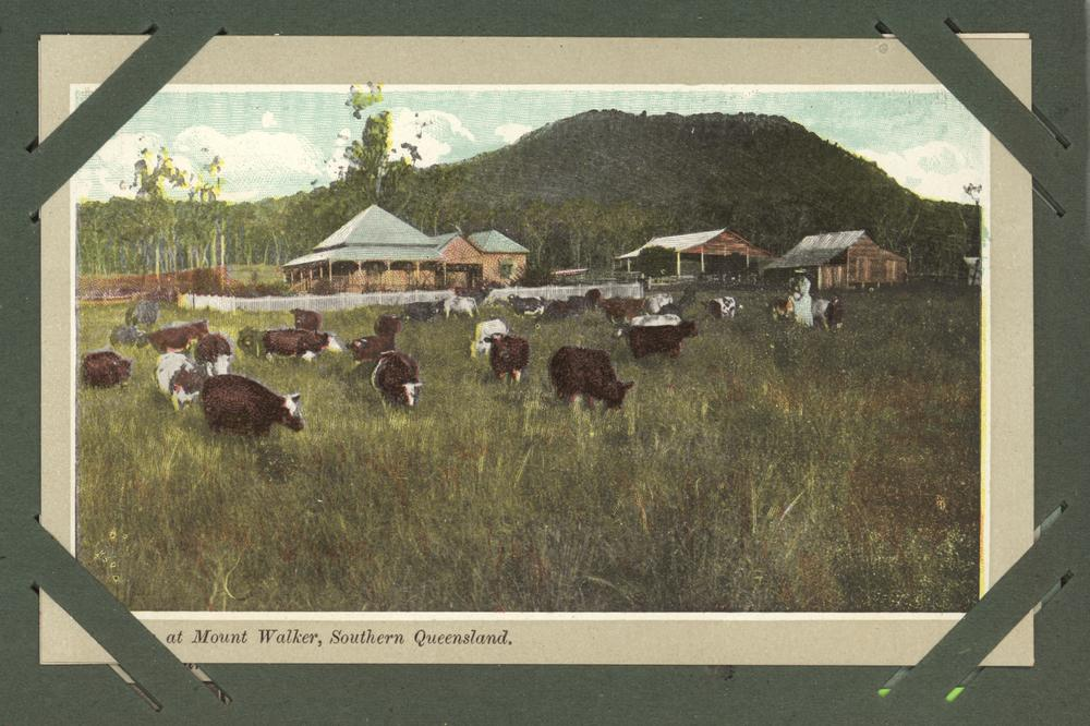 Farm at Mount Walker, ca. 1907. Coloured postcard produced by the Queensland Government to promote Queensland at the Franco- British Exhibition. Note on the postcard reads, ' The grazing farms and homesteads in Queensland aggregate 21,961 acres.'.